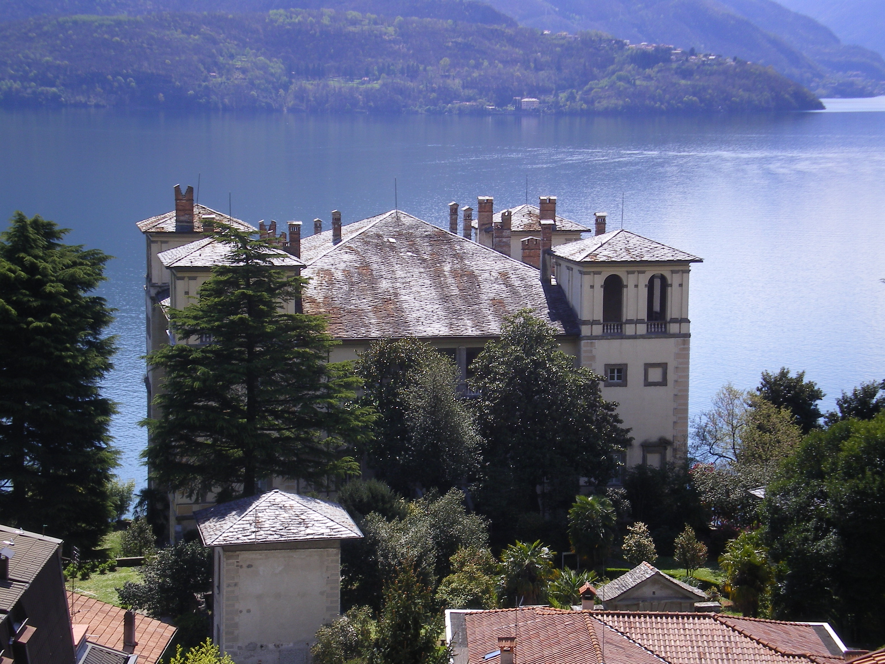 Palazzo Gallio in Gravedona (Lake Como)